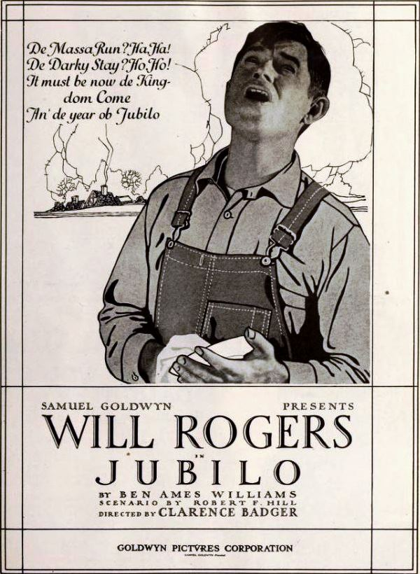 Advertisement for the American comedy drama film Jubilo (1919) with Will Rogers, on page 13 of the December 27, 1919 Exhibitors Herald. The ad includes a refrain: De Massa Run? Ha, Ha! De Darky Stay? Ho, Ho! It must be now the Kingeom Come An' de year ob Jubilo